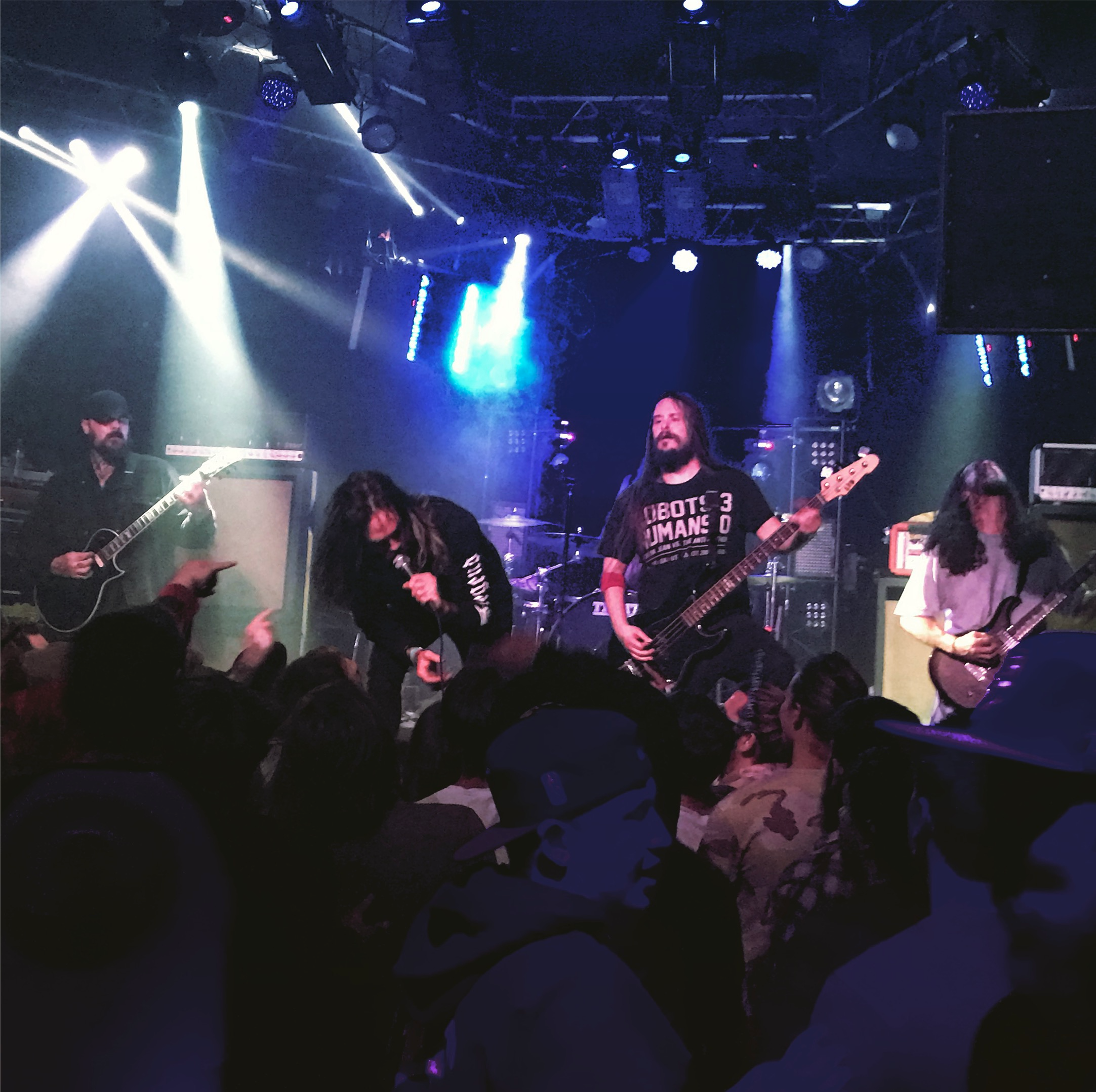 The band He Is Legend performing at The Whisky a Go Go Lounge, West Hollywood, CA, USA